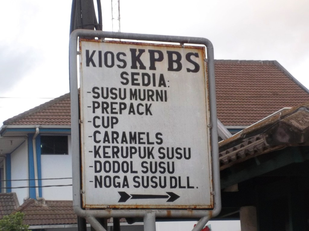 Kiosk that sells dairy product of KPBS Pangalengan, an Indonesian dairy farm company.